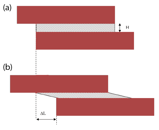 Simple linear shear model of endomysium of skeletal muscle.